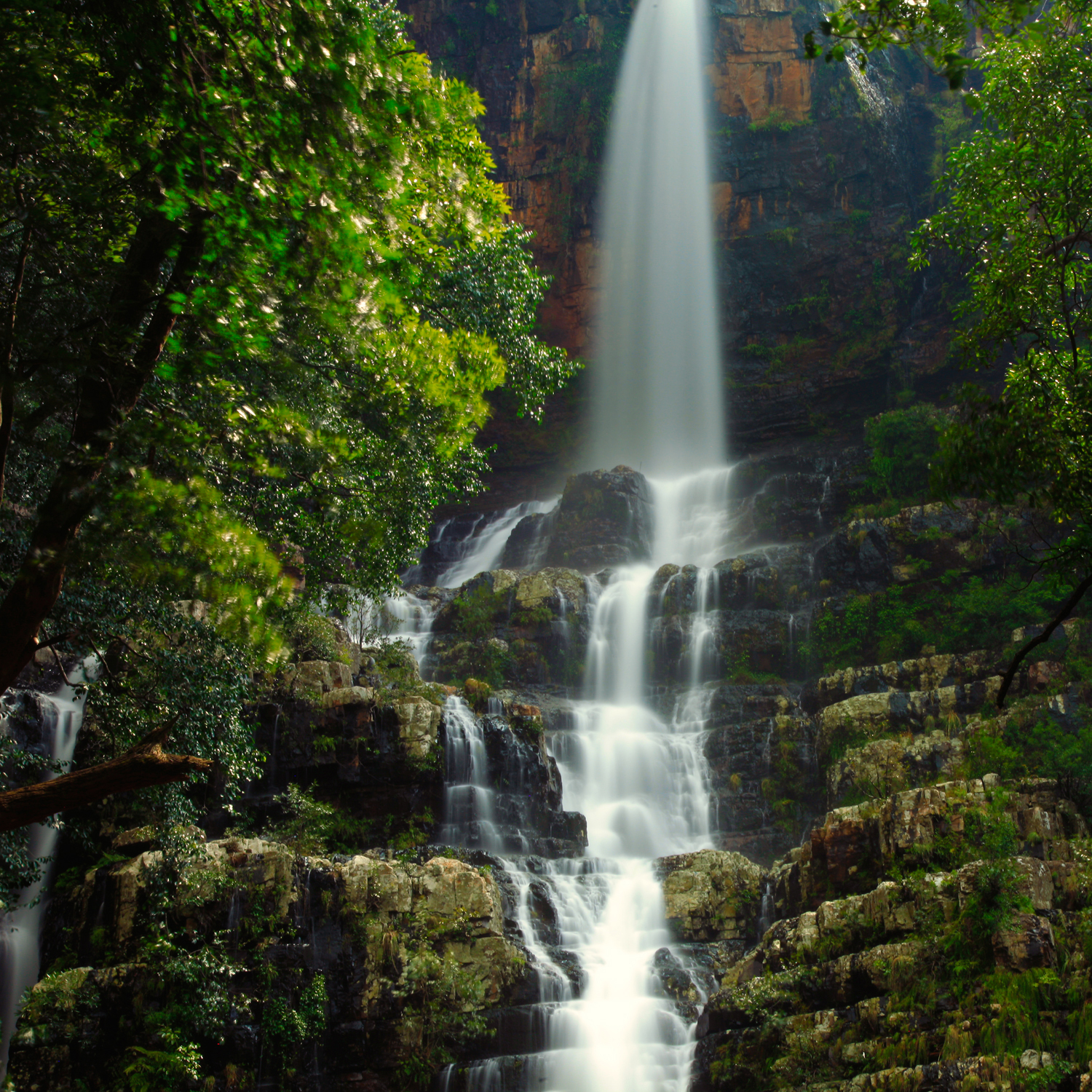 View of Waterfalls at Talakona Forests, Sri Venkateswara National Park, Chittor district, Andhra Pradesh